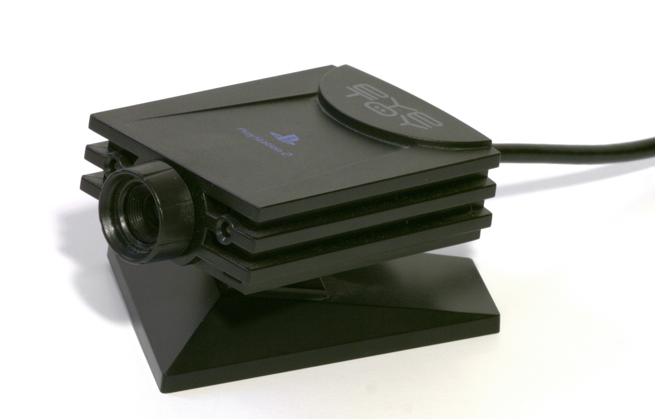 Playstation 2 EyeToy camera